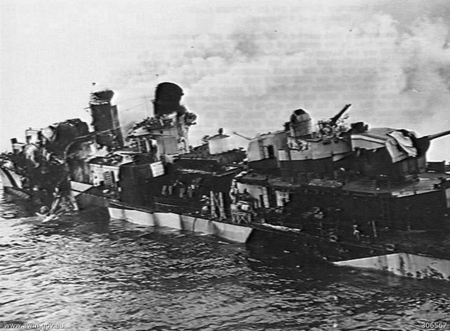 The U.S. Navy destroyer USS Hazelwood (DD-531) after being hit by Japanese Kamikaze aircraft off Okinawa.